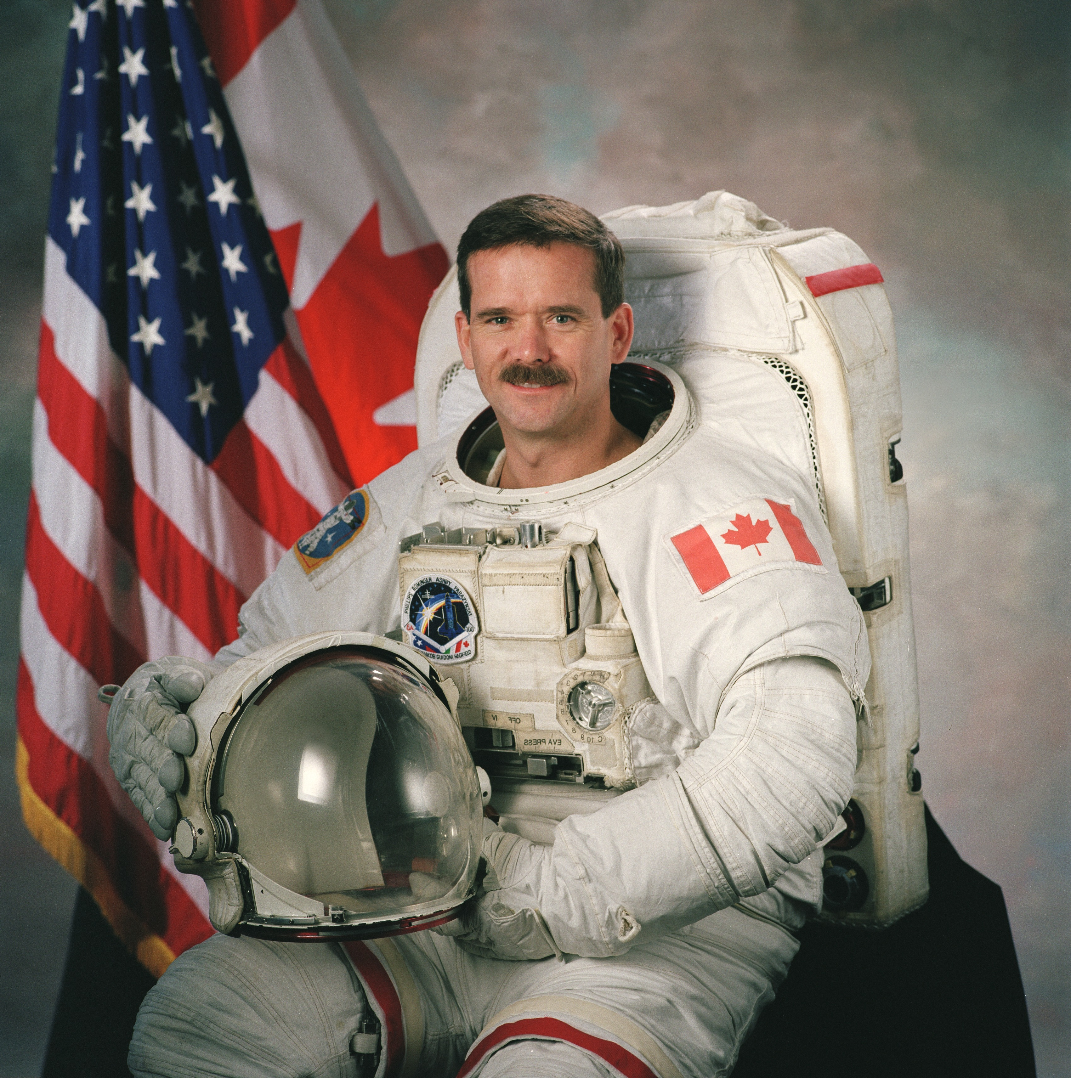 Astronaut Chris A. Hadfield Mission Specialist Canadian Space Agency (CSA)